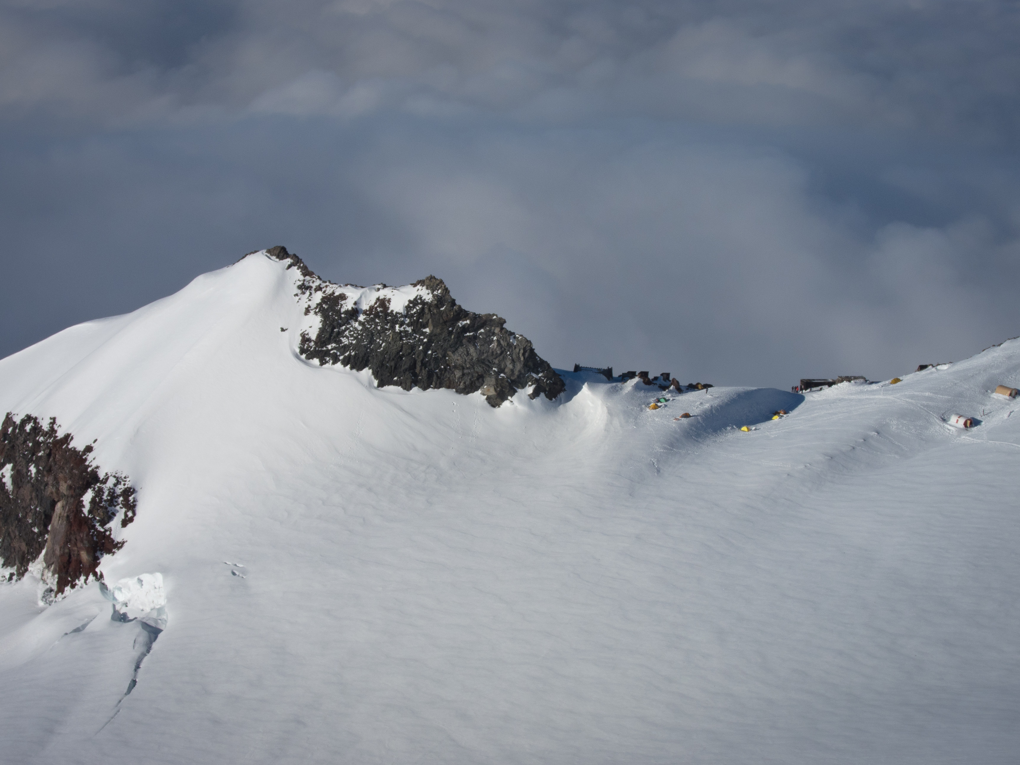 A photograph of Camp Muir (on Mount Rainier, Washington, USA) from the distance